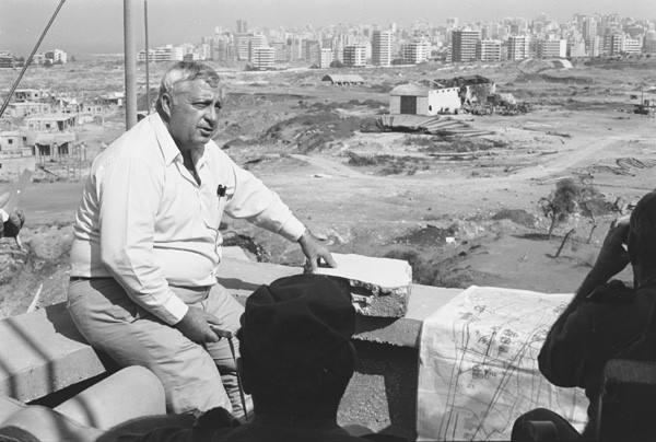 Ariel Sharon, People of Israel